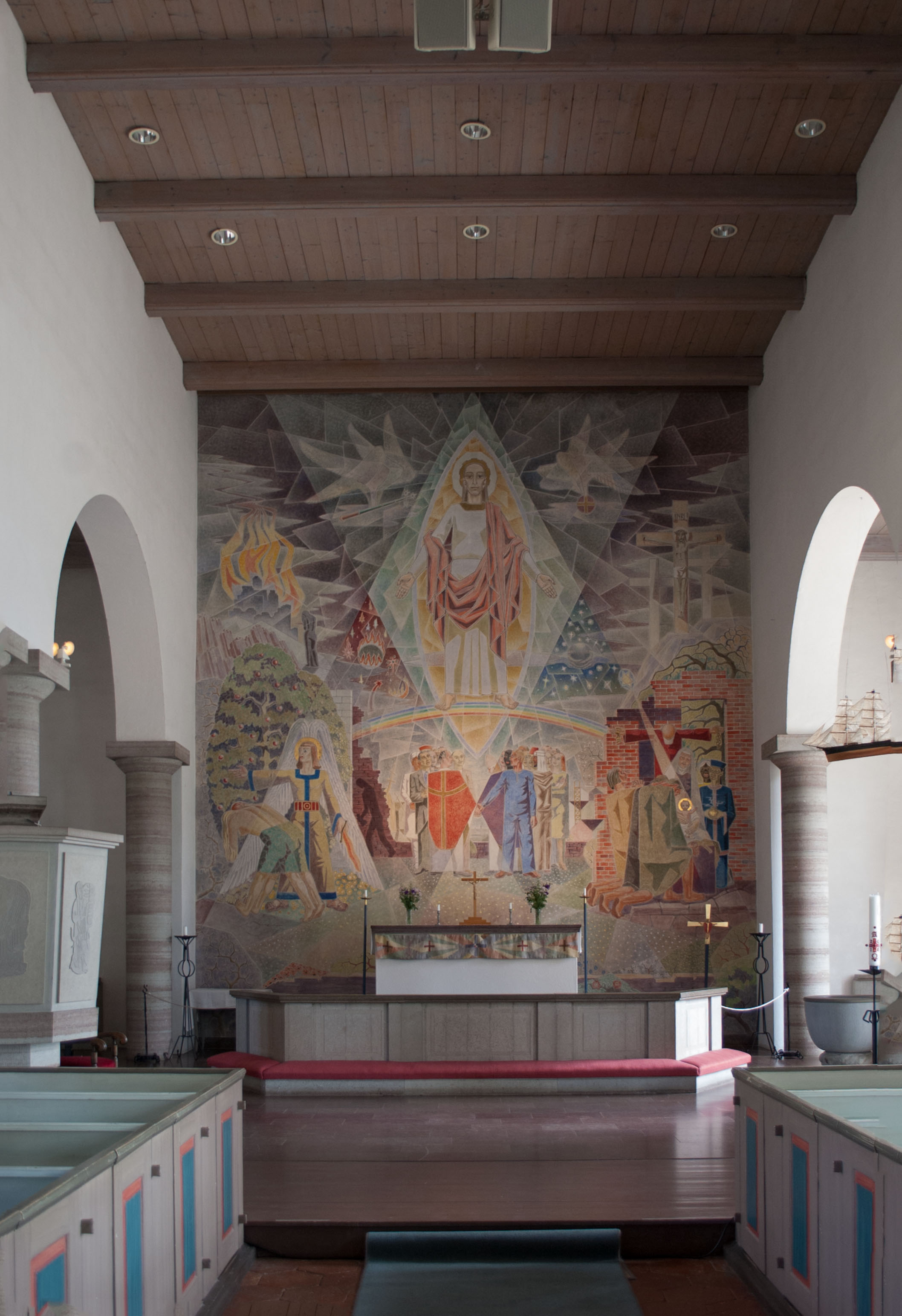 Kastlösa Church.The chancel